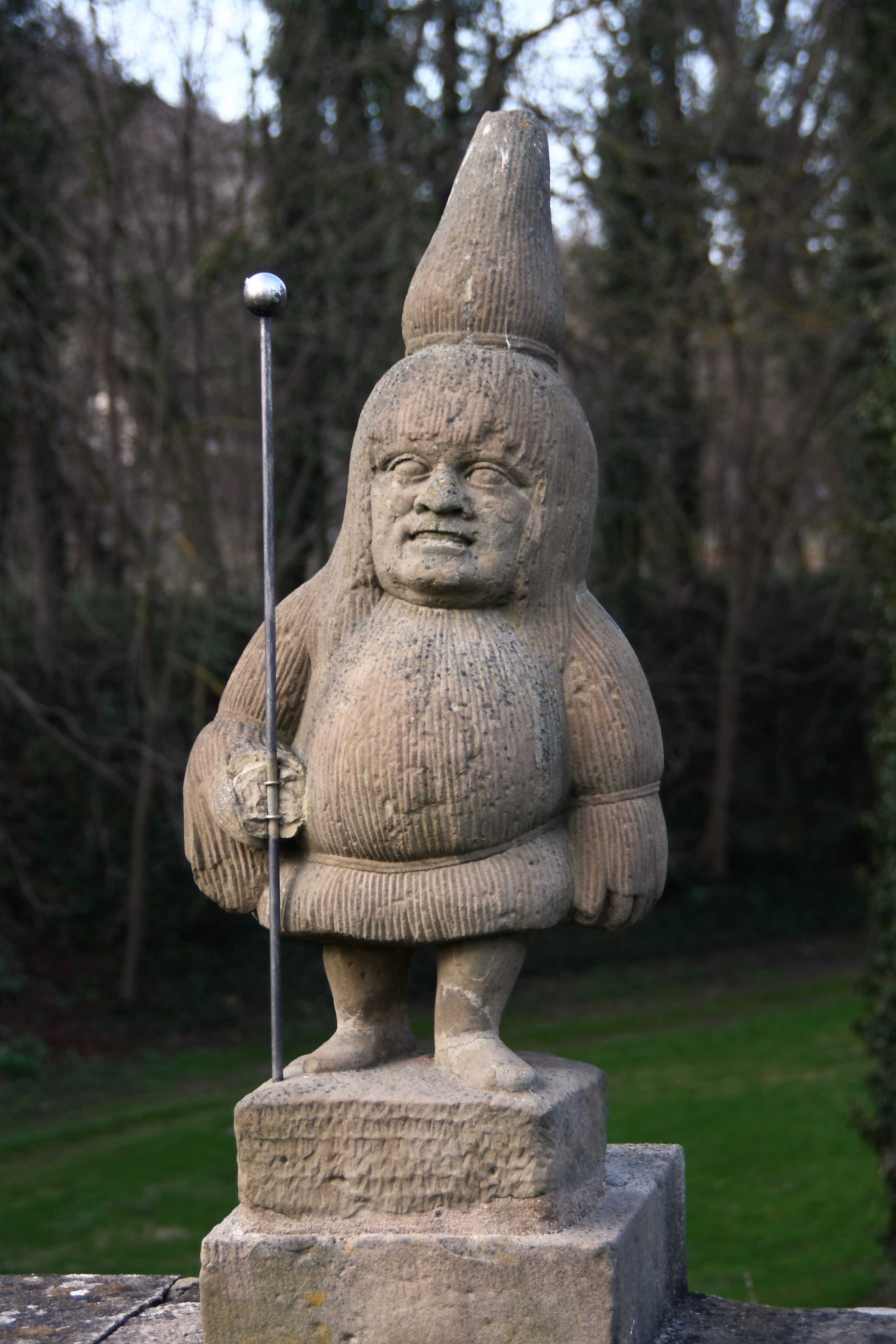 The court jester